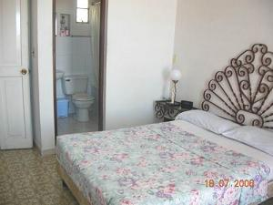 Typical room in Casa Particular in Havana, Cuba